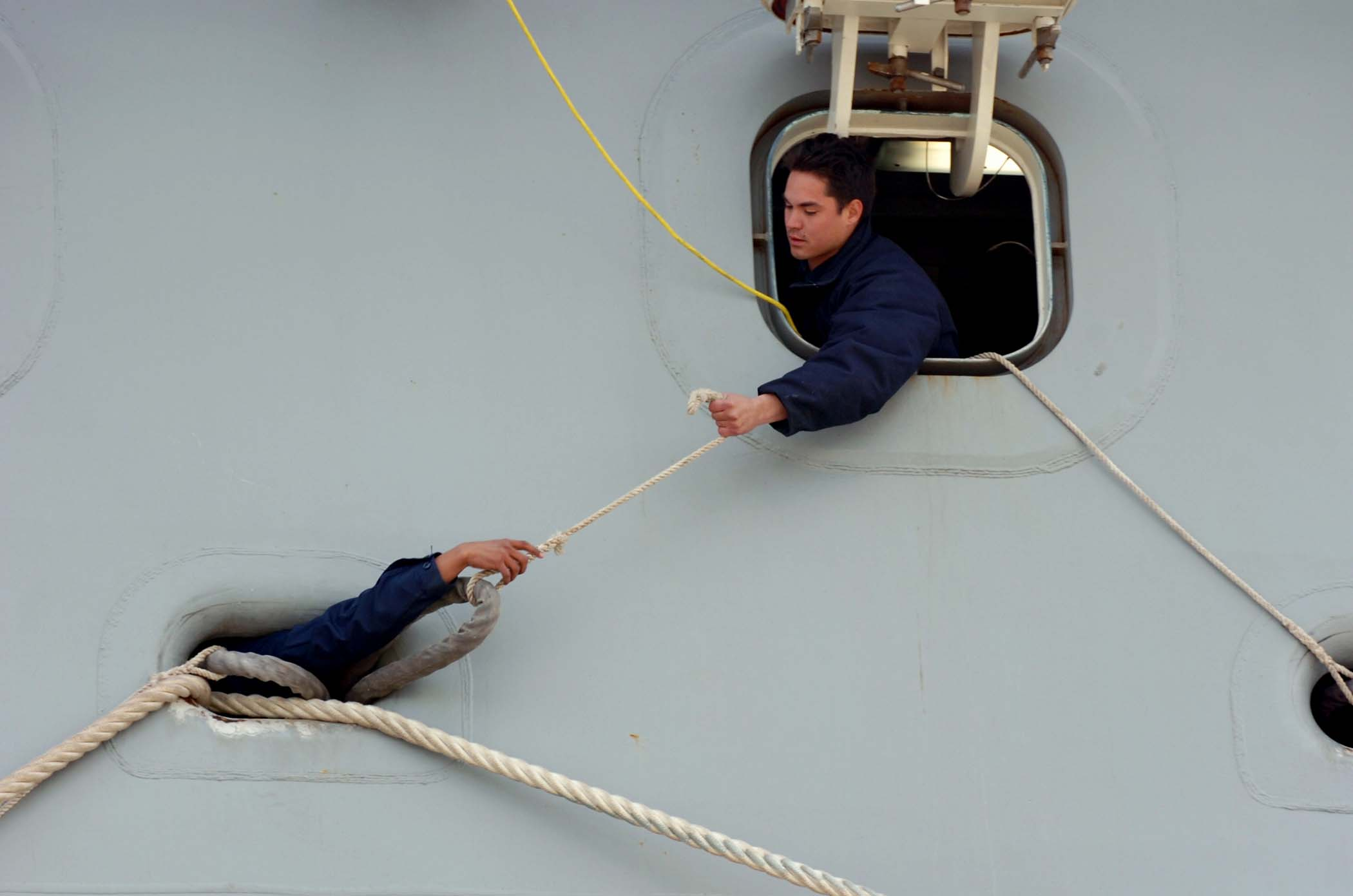 Norfolk, Va. (Jan. 25, 2006) - Line handlers assigned the amphibious transport dock ship USS San Antonio (LPD 17) prepare the mooring lines after pulling into her new homeport of Naval Station Norfolk. As the first in her class, San Antonio represents a key element of the Navy’s sea base transformation. The San Antonio-class will functionally replace over 41 ships (LPD 4, LSD 36, LKA 113 and LST 1179 classes of amphibious ships) providing the Navy and Marine Corps with modern sea-based platforms. U.S. Navy photo by Photographer’s Mate Airman Apprentice David Danals (RELEASED)